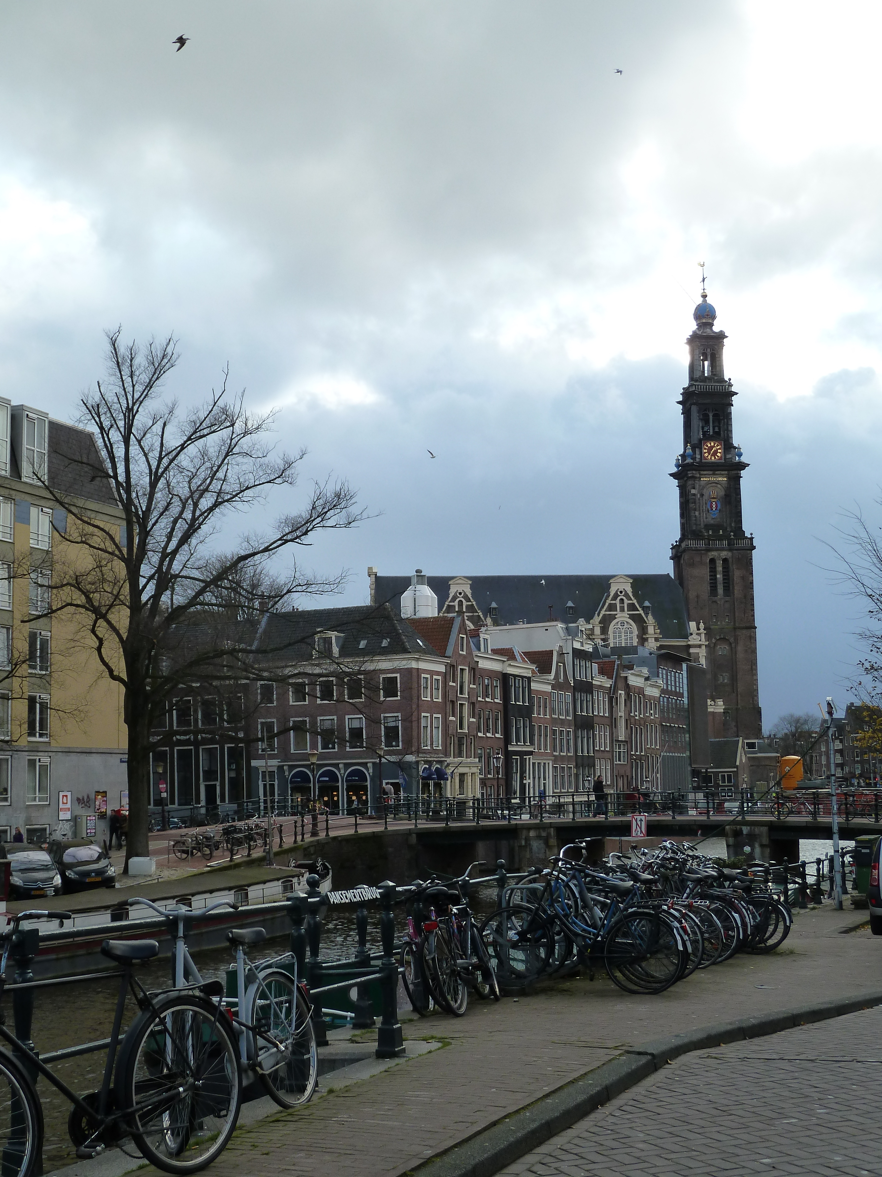 Amsterdam